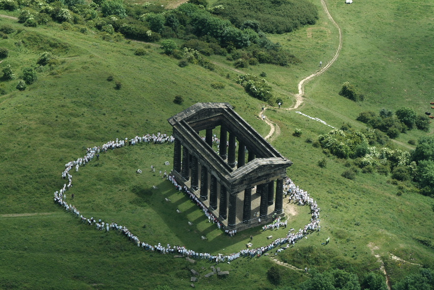 Living white band - in support of the Makepovertyhistory campaign :1st July 2005. Organised by City of Sunderland College's Human Rights Group.